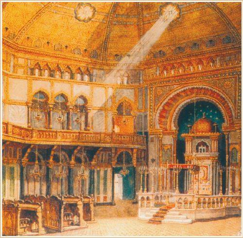 Franz Xaver Reinhold: the Turkisher Tempel of Vienna